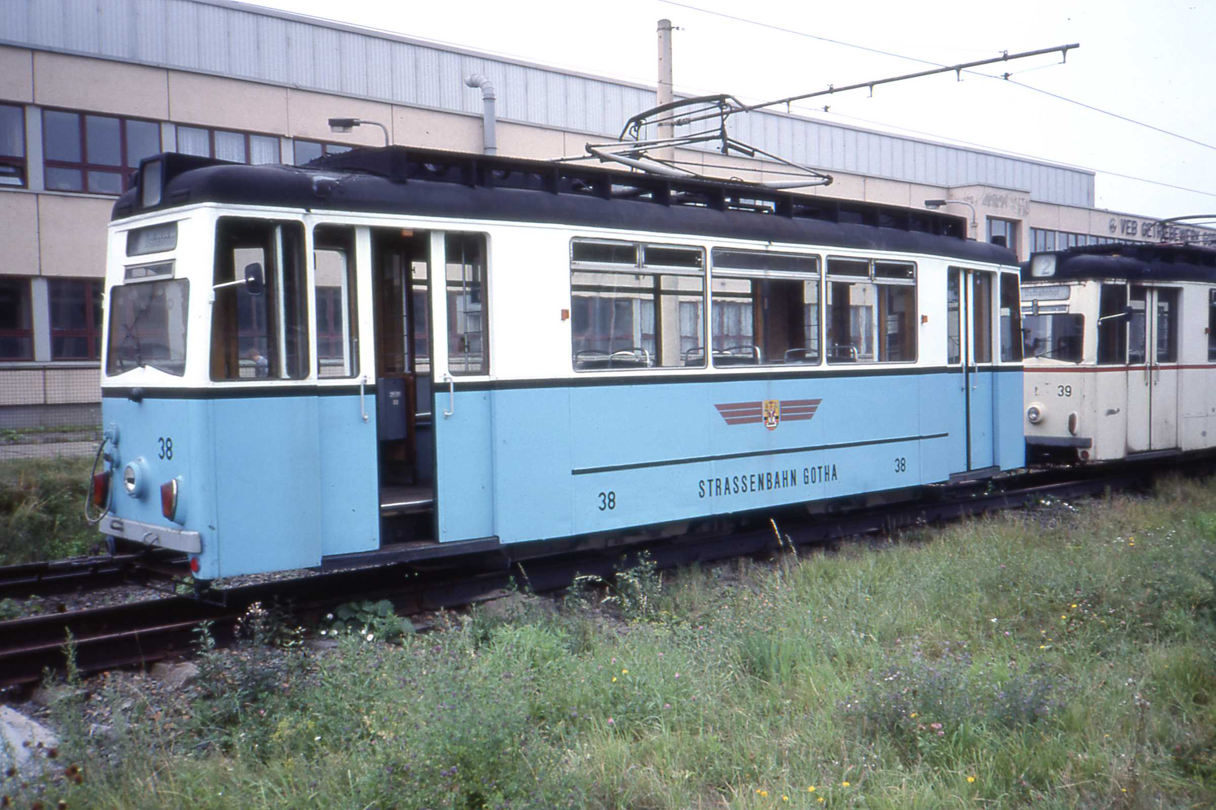 Two early Gotha made trams in the early LOWA style -double-ended motor cars - wait inside the turning circle at Gotha's Ostbahnhof, the eastern end of route 2. - In the background the factory of VEB Getriebewerk Gotha, still in business as ZF Gotha GmbH, makers of Gearboxes. ZF means „Zahnradfabrik Friedrichshafen“, the parent AG company which came into being to make the drive for Zeppelins. The turning circle here can be seen in the bottom left of the aerial photo of the plant which this tram served. Nos 38 and 39 are spare vehicles for the two more modern Gotha double-ended cars which were running the service at that time. Track relaying meant that this section of route was isolated, with a temporary stub terminus near the junction with routes 1 and 3. The blue livery of 38 looks especially attractive. Town trams were painted blue, and the Waldbahn trams for Tabarz were yellow. Quite extraordinarily, both of these vehicles survive today (2009). The ivory and red motor car no 39 a local Gotha ET55 vehicle of 1955 behind has been retained and restored by the undertaking, and is now painted in a darker blue and white livery. No 38 is now a works car. A complete list of Strassenbahn Gotha trams is found here. The T-shaped network with the four main routes is shown here